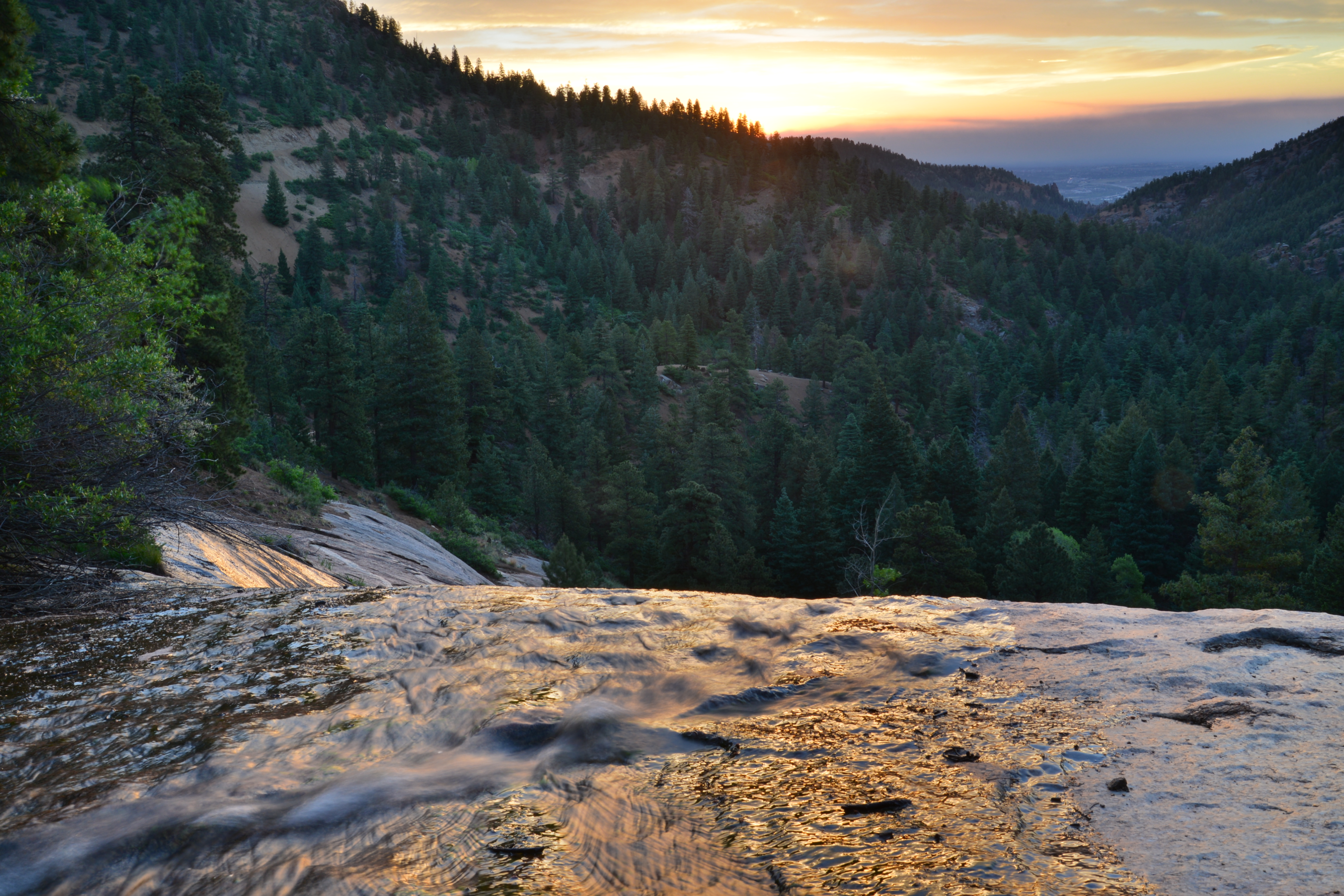 The crest of Silver Cascade Falls, North Cheyenne Canyon Park, Colorado Springs, CO, at dawn, June 2013